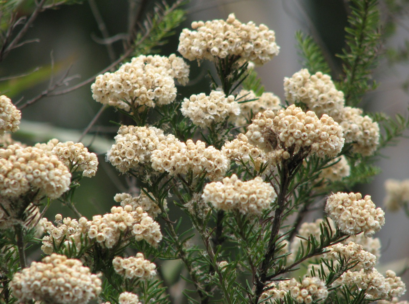 Ozothamnus diosmifolius, Maranoa Gardens, Balwyn, Victoria, Australia.